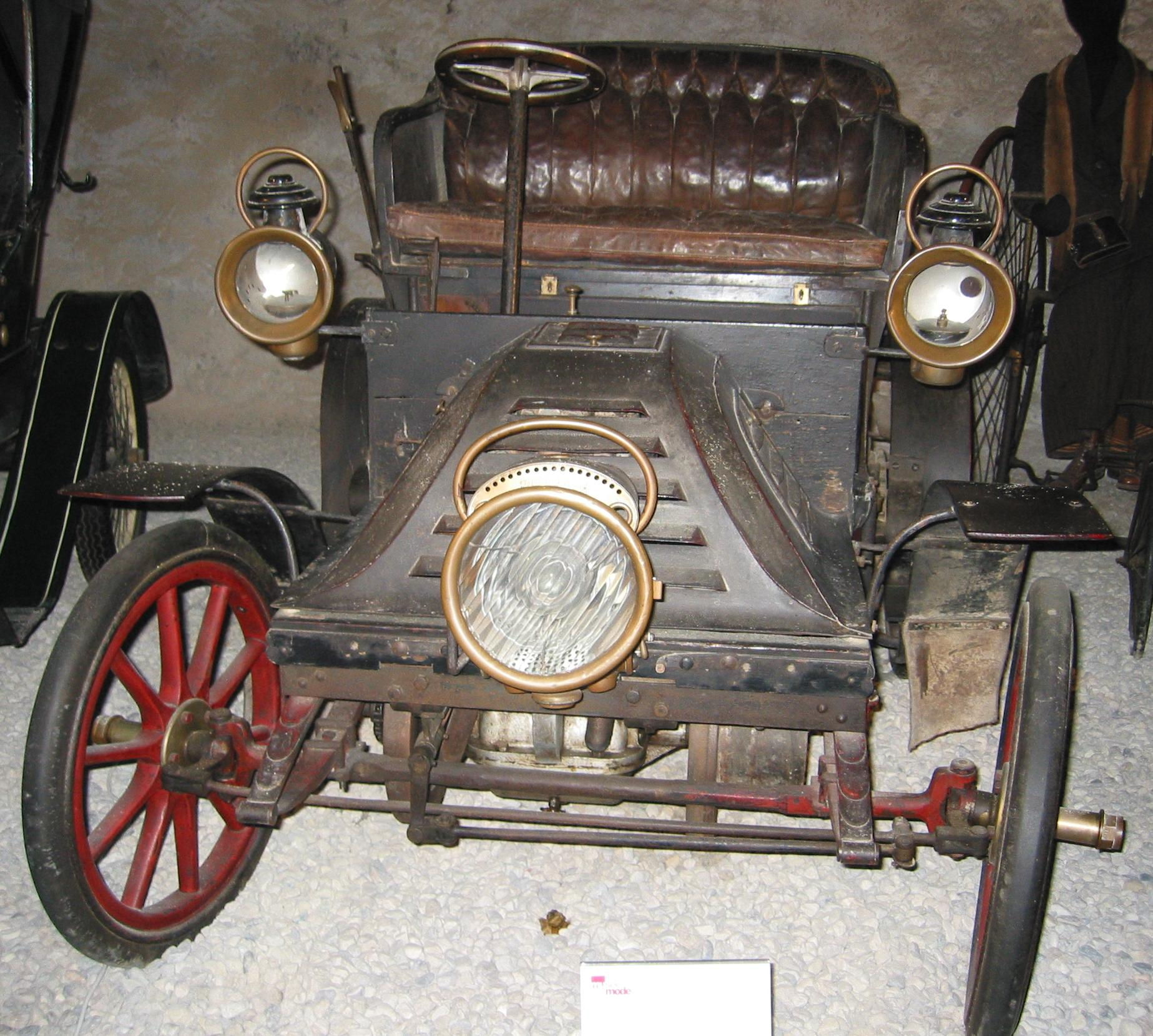 Vinot & Deguingand 1901 (Country of origin: France)